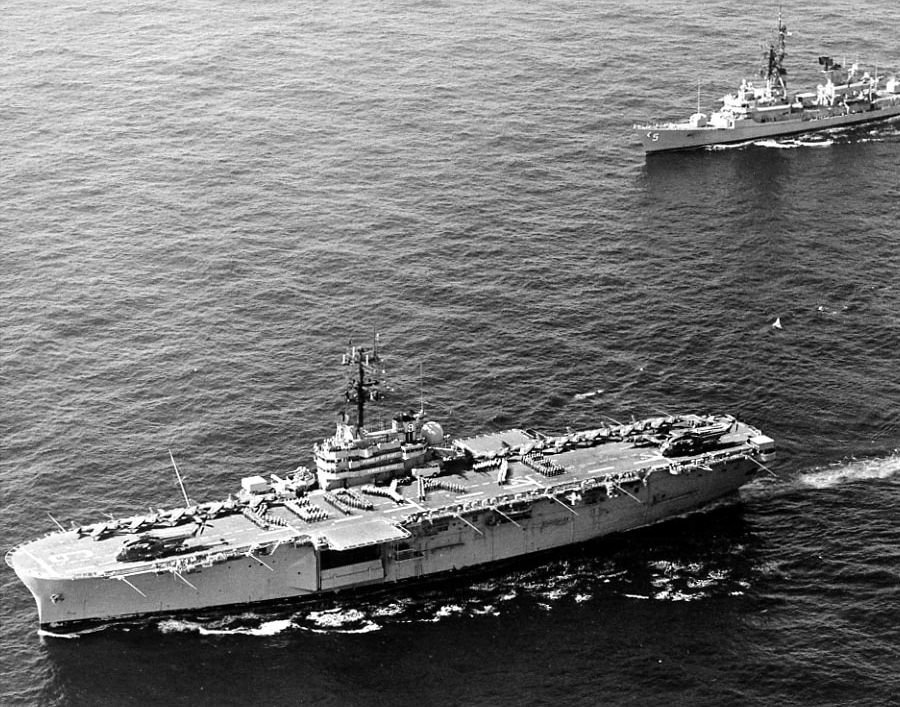 The U.S. Navy amphibious aussault ship USS Guam (LPH-9) underway to Kenya. Her crew is forming "KENYA 76" on the flight deck in conjunction with her visit to Mombasa, Kenya for celebration of that nation's independence. In November 1976, Guam departed Norfolk for Kenya, via the Mediterranean. After transiting the Suez Canal on 12 December, Guam launched 13 Hawker Siddley AV-8A Harriers of Marine Attack Squadron 231 to Nairobi, Kenya, for a fly-by celebration of Kenya's 13th year of Independence. The guided missile destroyer USS Claude V. Ricketts (DDG-5) is steaming in company.